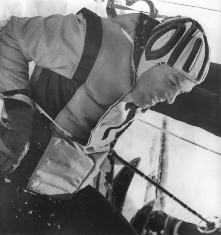 1960 Press Photo Luis Molne Breaks Leg In Olympic Downhill Ski Race Squaw Valley